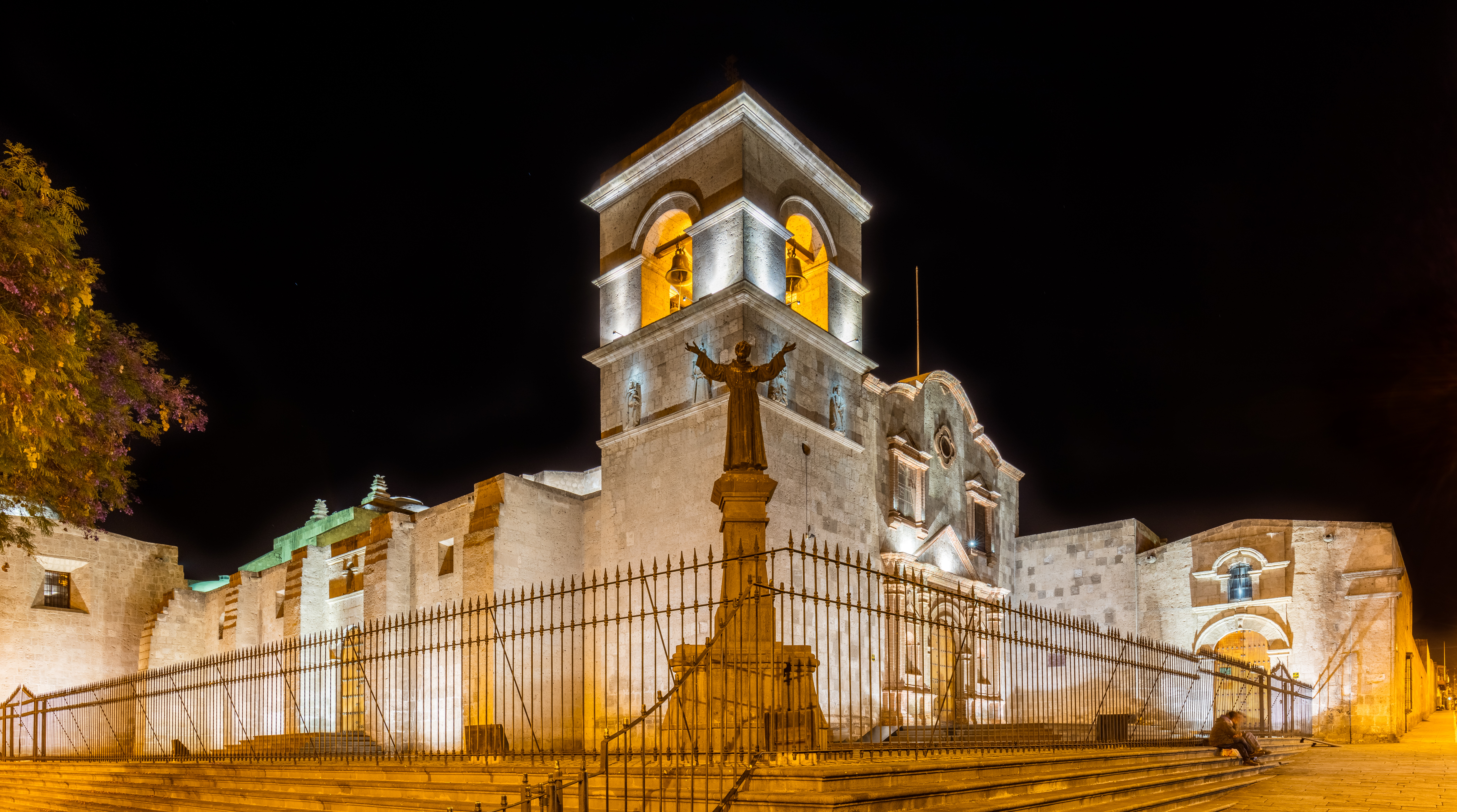 Night view of the religious complex of San Francisco, Historic Centre of Arequipa, Peru. The complex, founded in 1552 and of mixed style, consists of a Franciscan church, a convent and a minor temple known as the Third Order. Its simple but robust construction made possible that it conserves very good for over 400 years in spite of the frequent earthquakes.